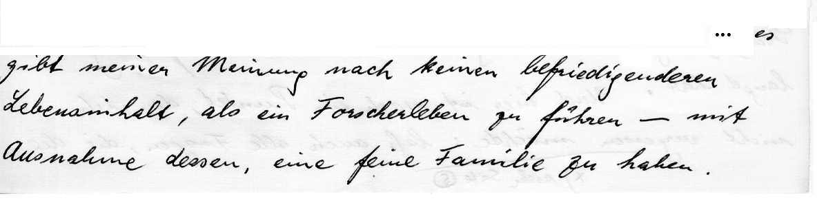 excerpt from a letter Erhard Kietz wrote to his eldest daughter in which he expresses his love of research